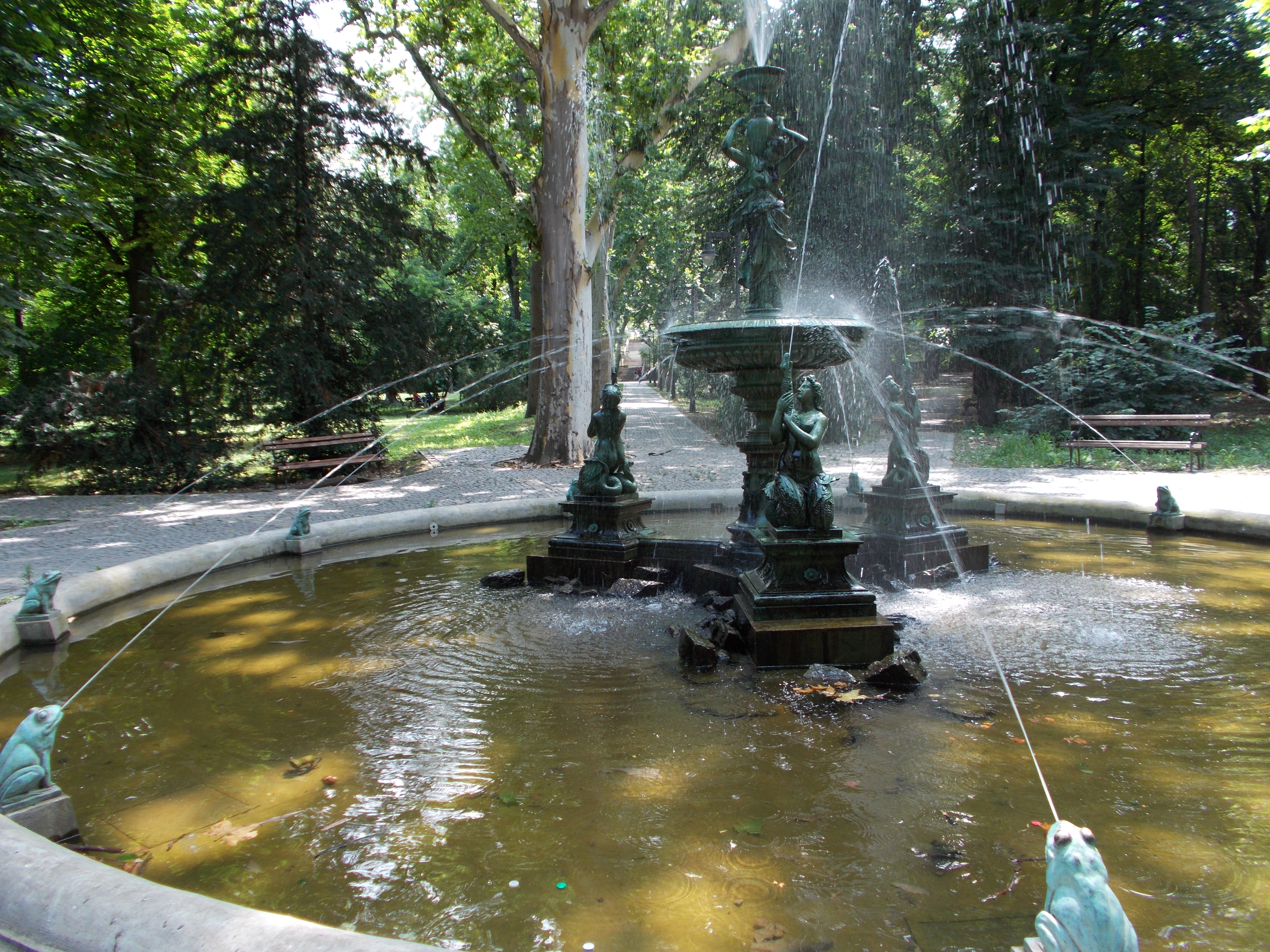 Fountain in City Park in Vrshac